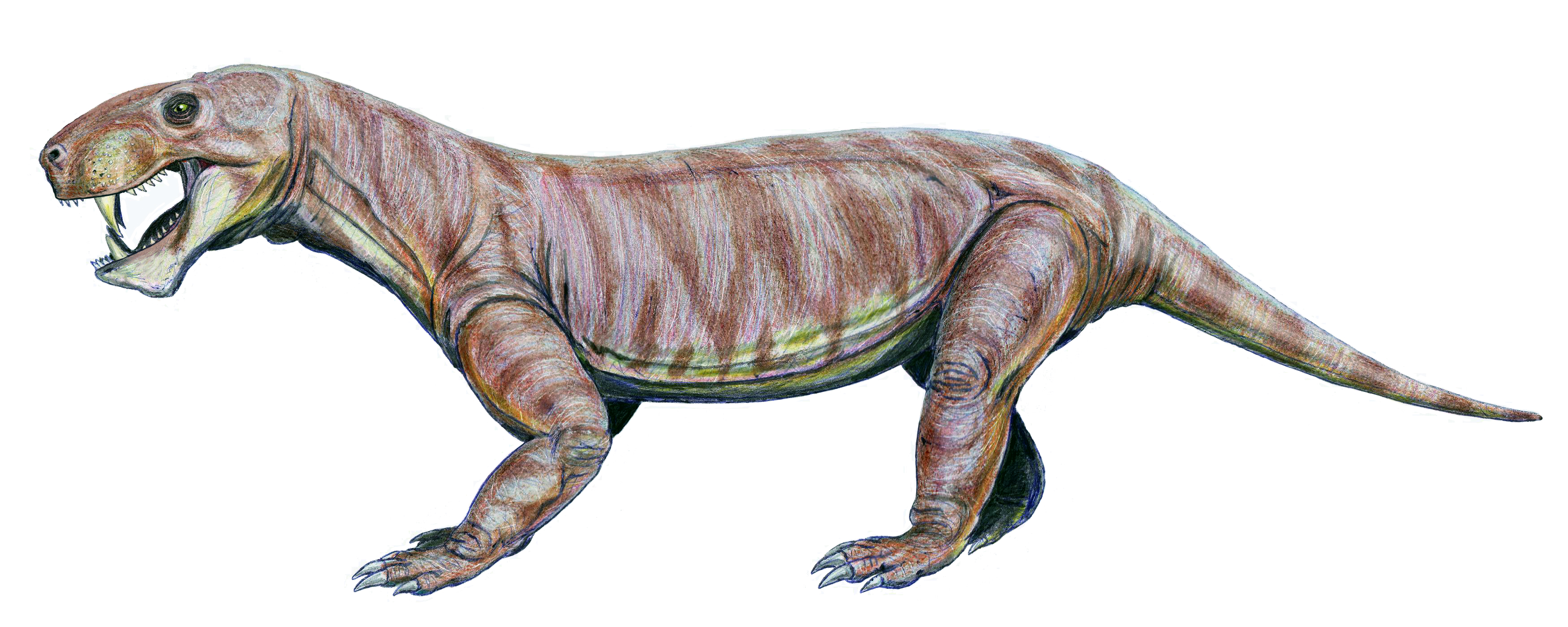 Sauroctonus progressus from Late Permian of Tatarstan. Postcranial is based on S. parringtoni.